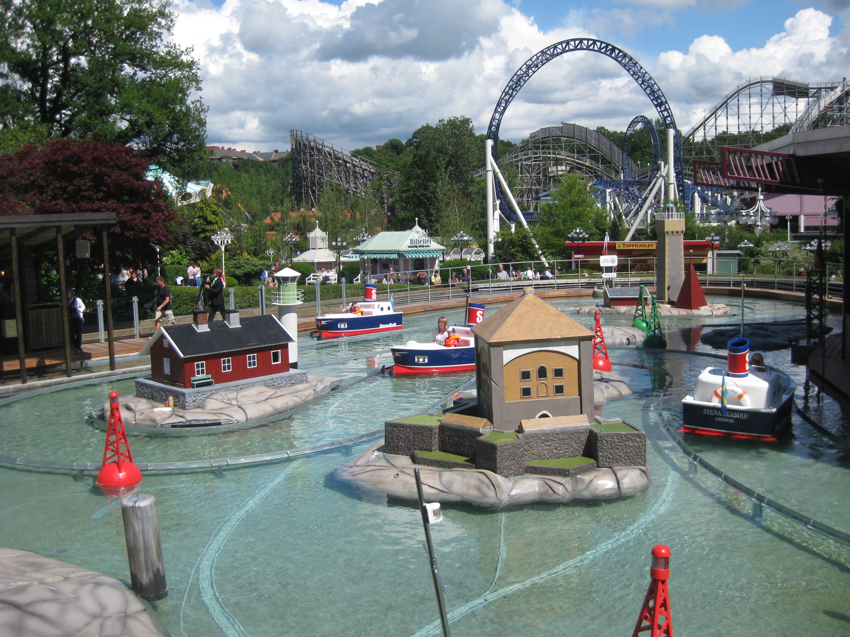 Skepp o' skoj is an amusement ride at the Liseberg amusement park in Gothenburg, Sweden.